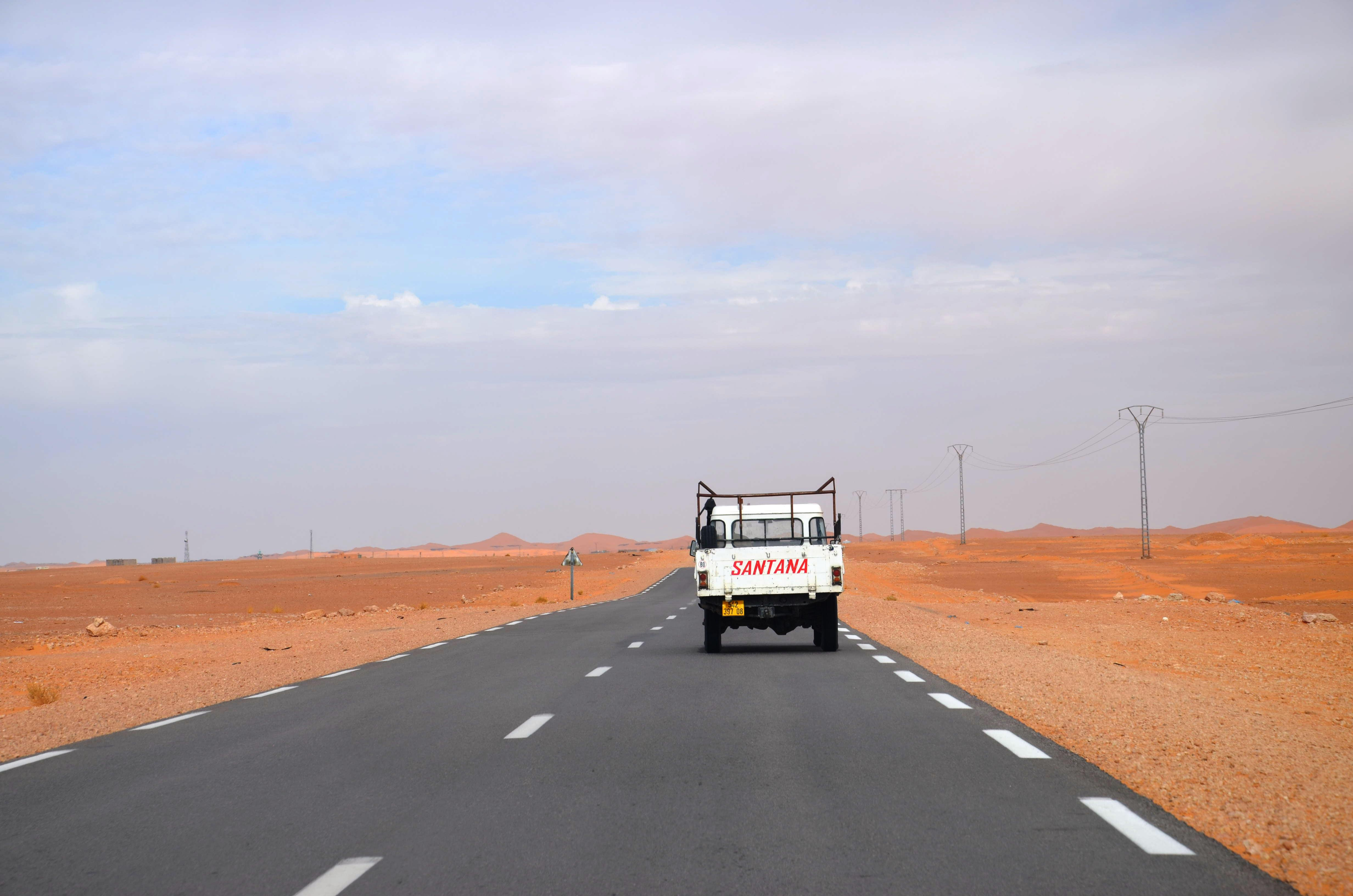 This is an image with the theme "Africa on the Move or Transport" from: Algeria